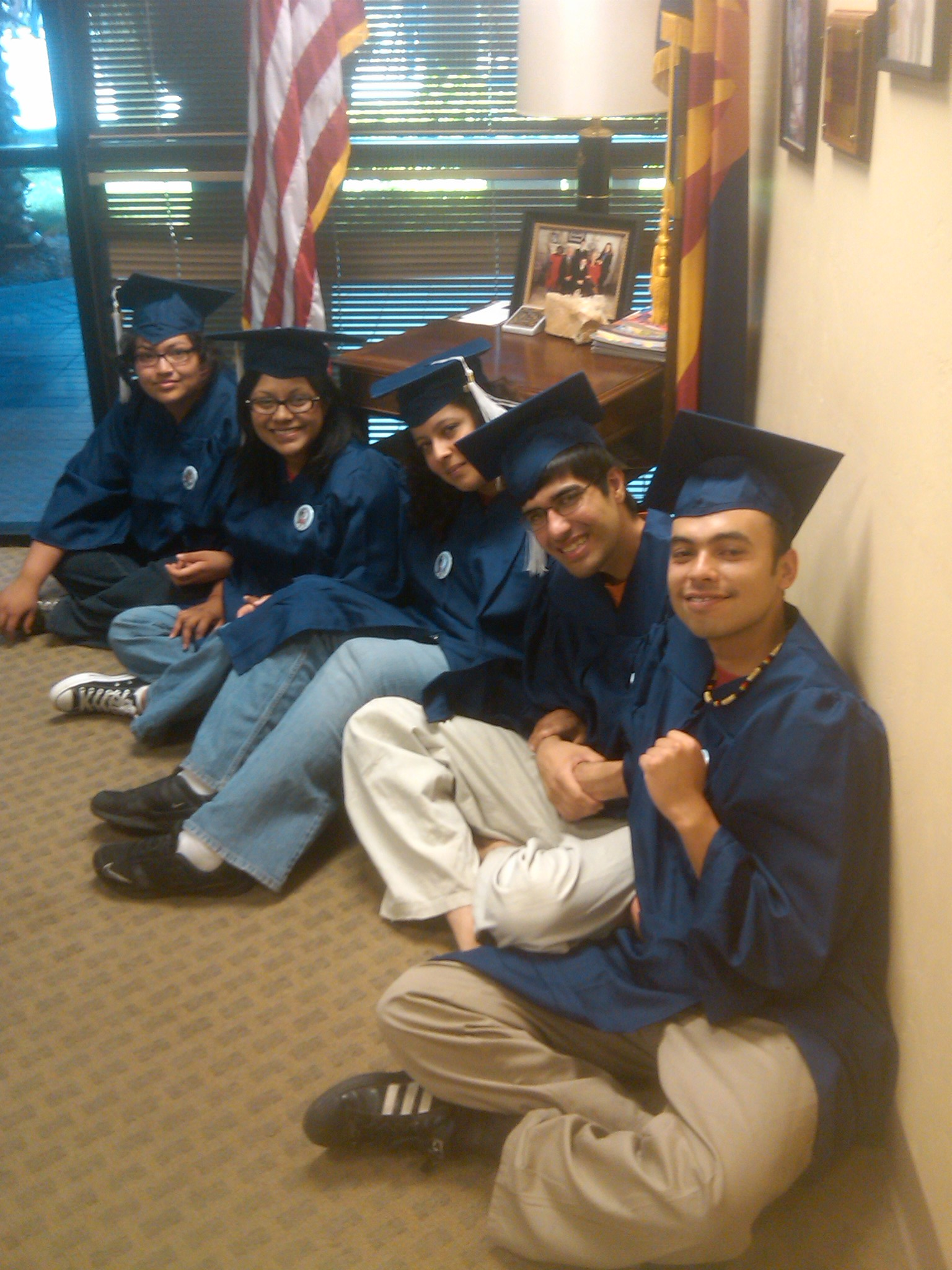 Arizona native Raul Alcaraz; Lizbeth Mateo of Los Angeles, California; Tania Unzueta of Chicago, Illinois; Mohammad Abdollahi of Ann Arbor, Michigan; and Yahaira Carrillo of Kansas City, Missouri; were detained Tucson, Arizona, after staging a sit-in at US Senator John McCain’s office on 5-17-10 in support of the DREAM Act.